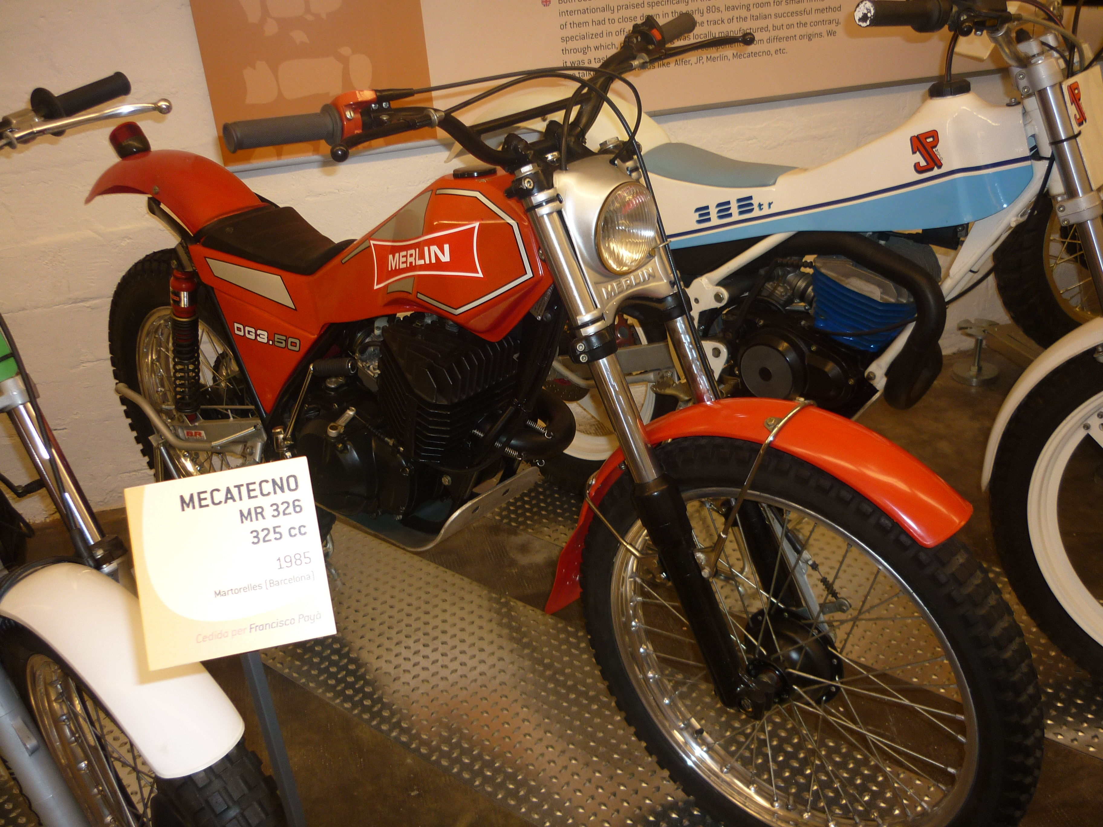 Merlin DG3 350cc (1982).Museu de la Moto de Barcelona (Catalonia).